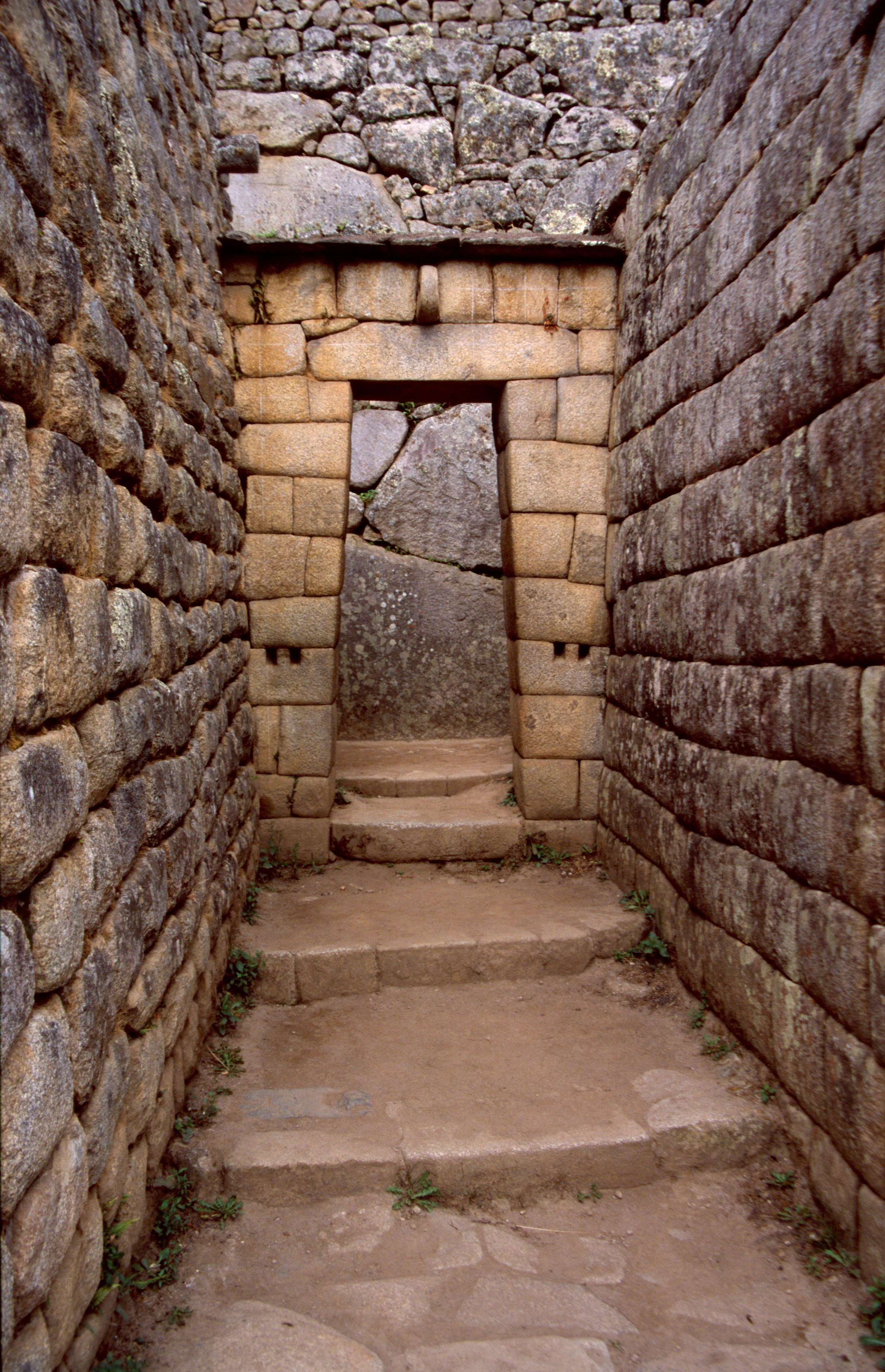 Machu Picchu, Perú. Inca Palace at Residential area.